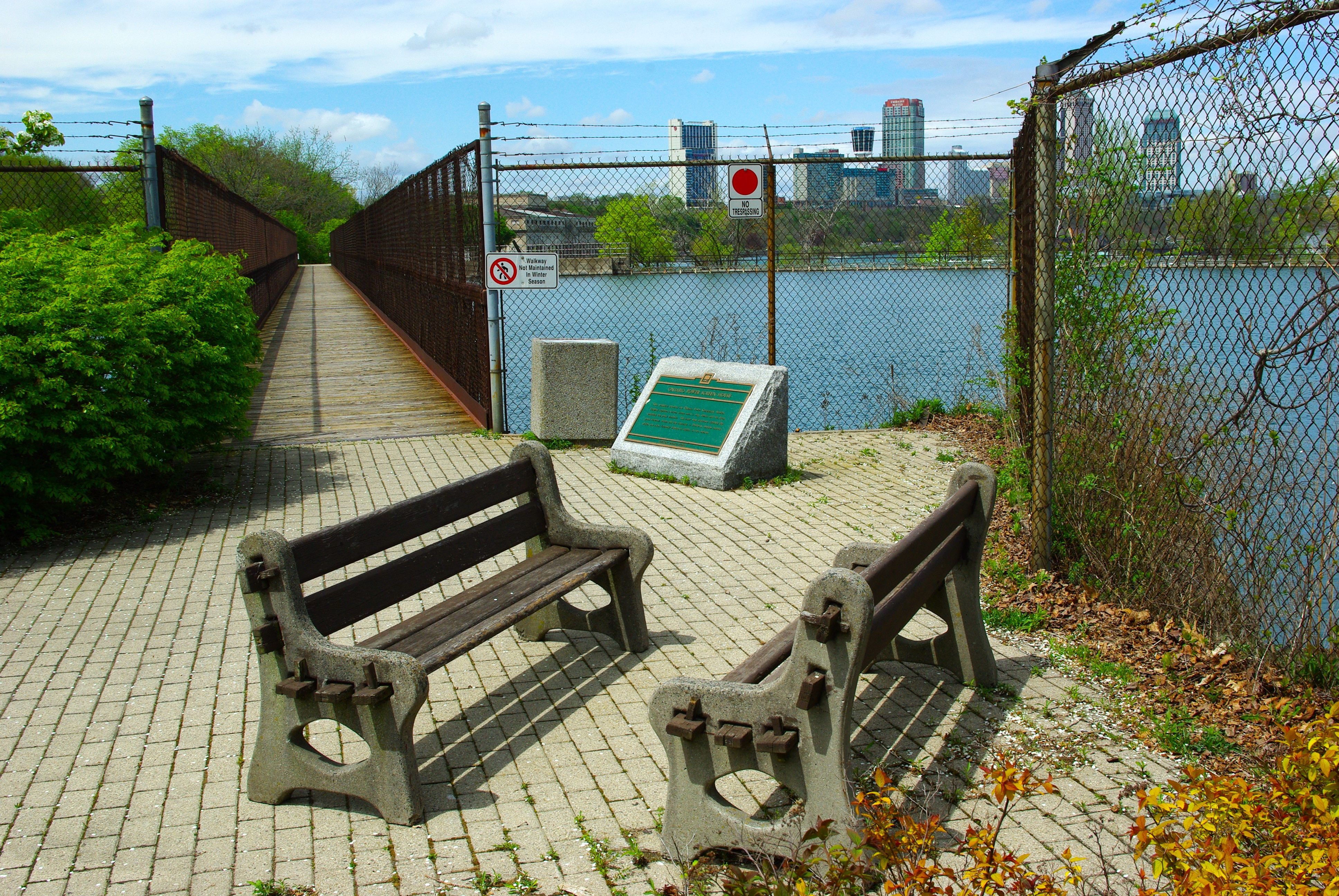 Benches facing each other in Niagara Falls, Ontario, 2010. Bench. Niagara Rive is in the background. Other information Photo by George Garrigues